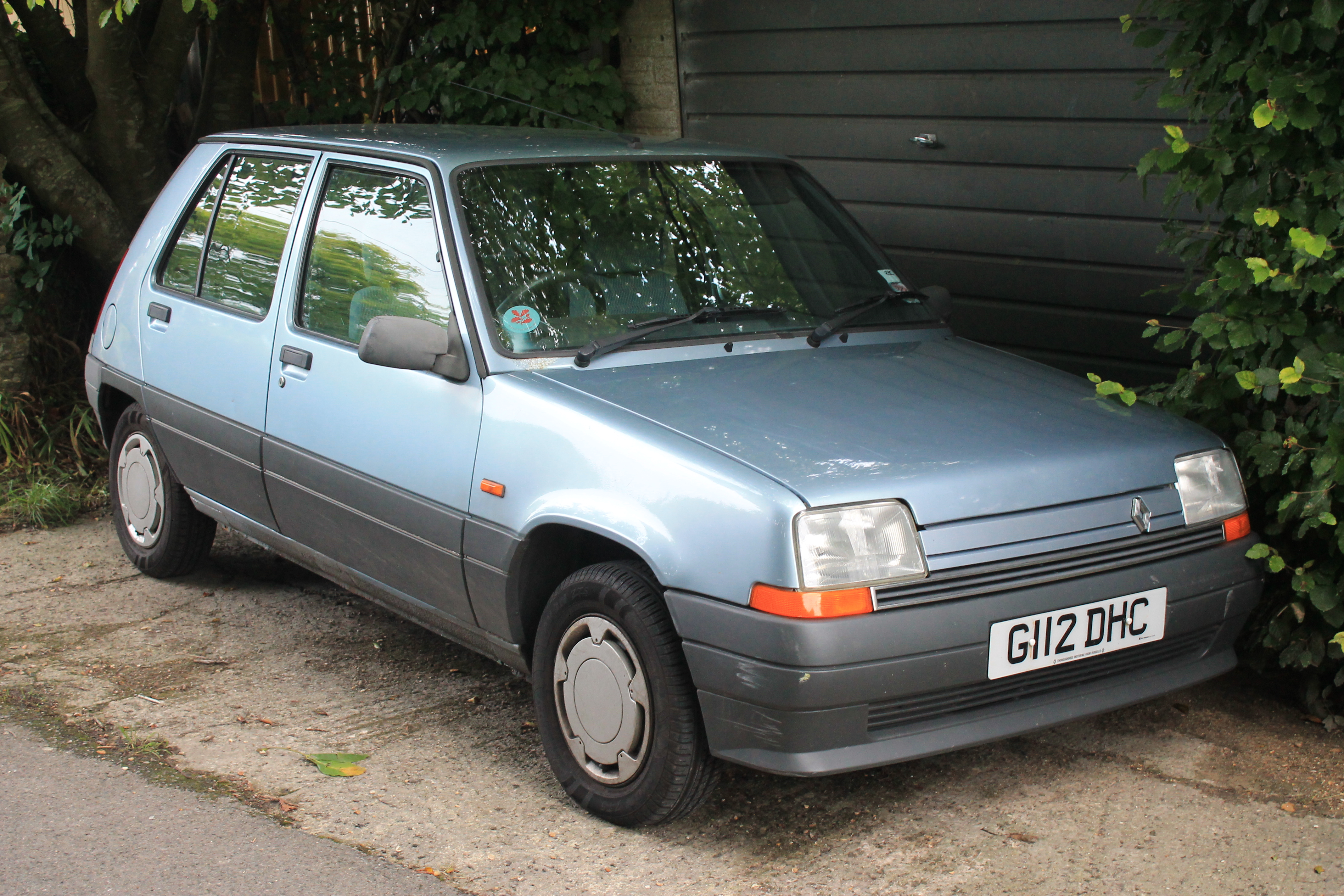 I like these French Renault 5s. This one's owned by a very elderly looking lady who lives close to me.